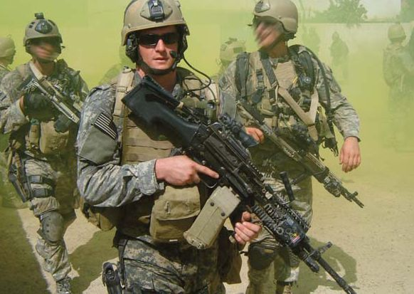 Petty Officer Second Class (SEAL) Michael A. Monsoor patrols the streets of Iraq while deployed in 2006. He received the Medal of Honor posthumously in a ceremony at the White House April 8, 2008.